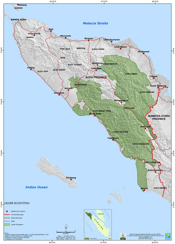 Leuser Ecosystem in Aceh Province